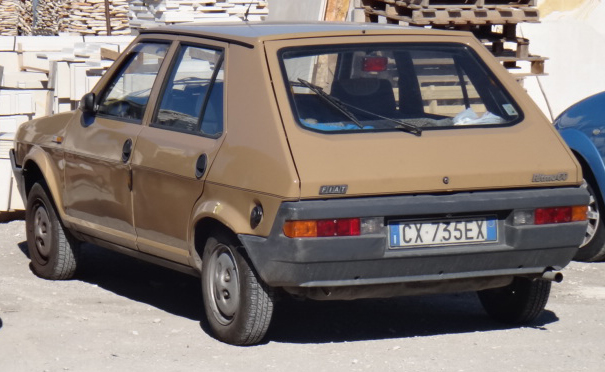 Was very very happy to finally see one of these in the metal!